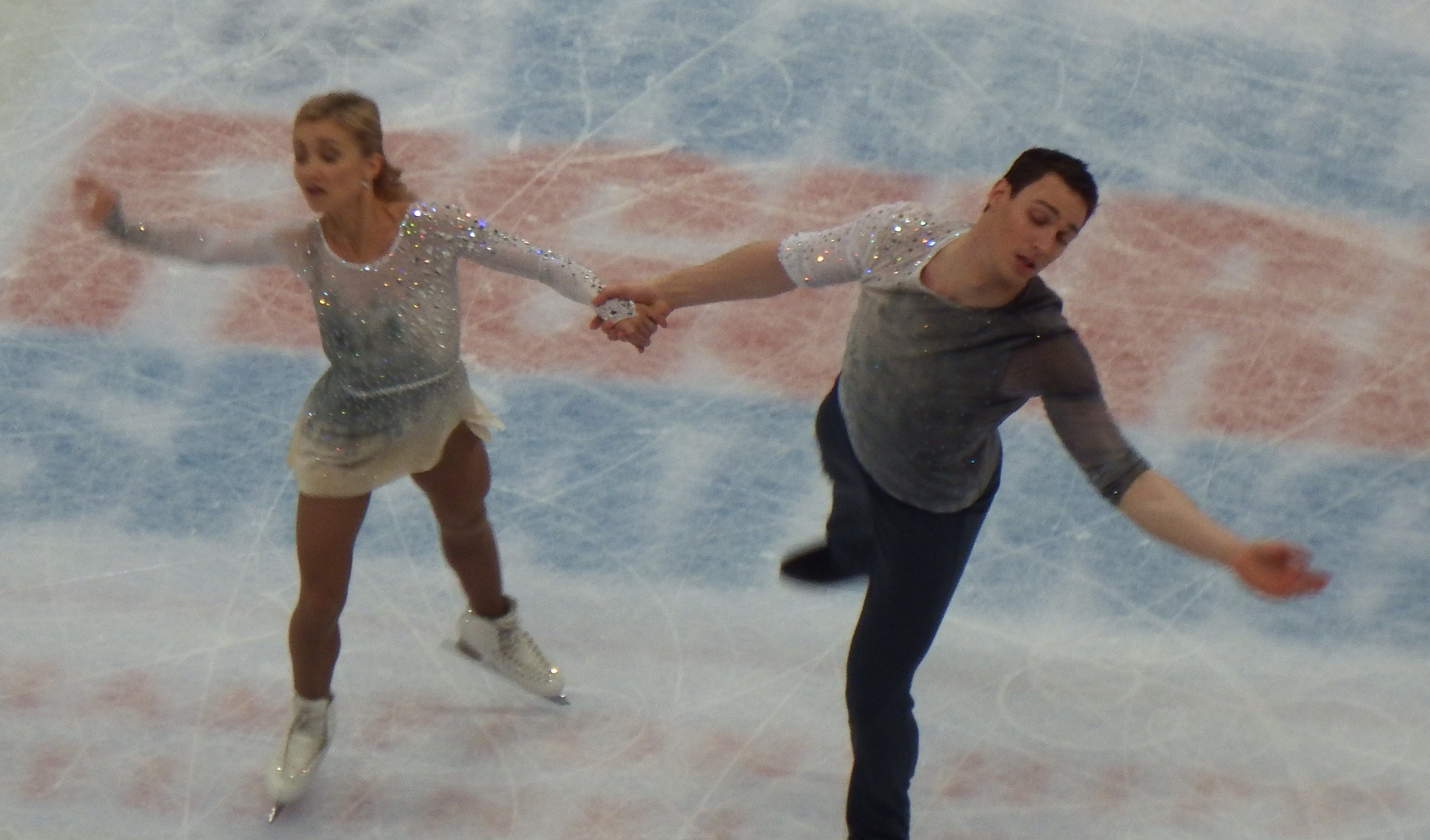 Aliona Savchenko Bruno Massot_Helsinki 2017